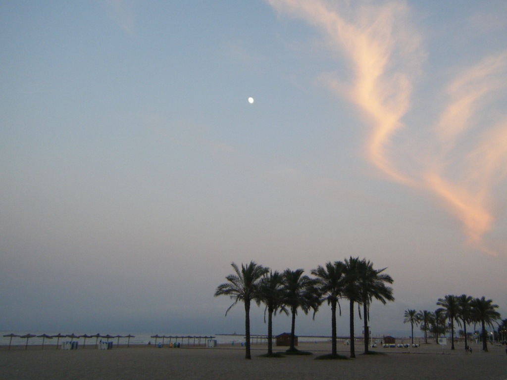 Cullera's beach